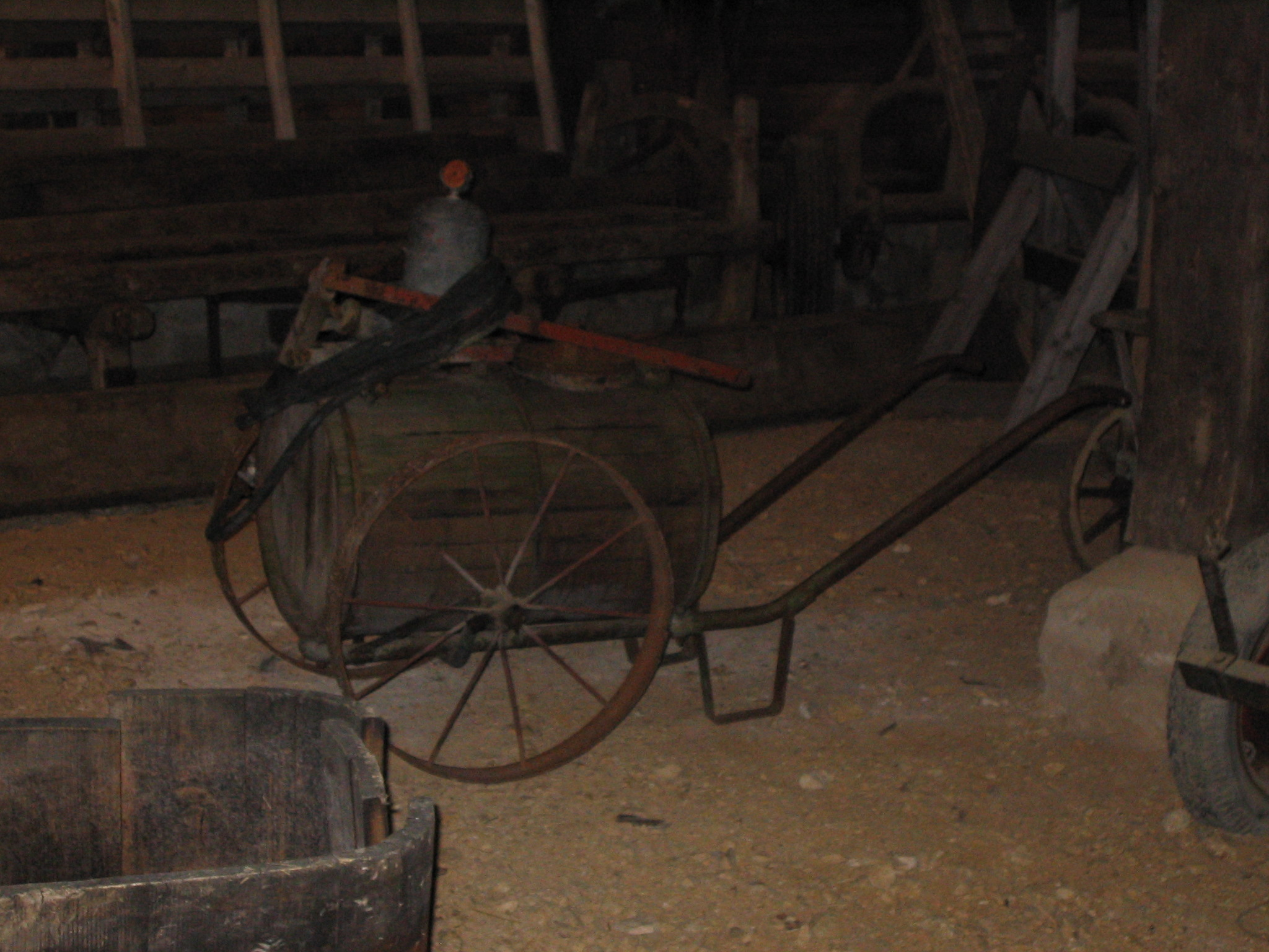 Mobile barrel at the Freilichtmuseum Neuhausen ob Eck